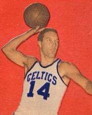 Professional basketball player Eddie Ehlers